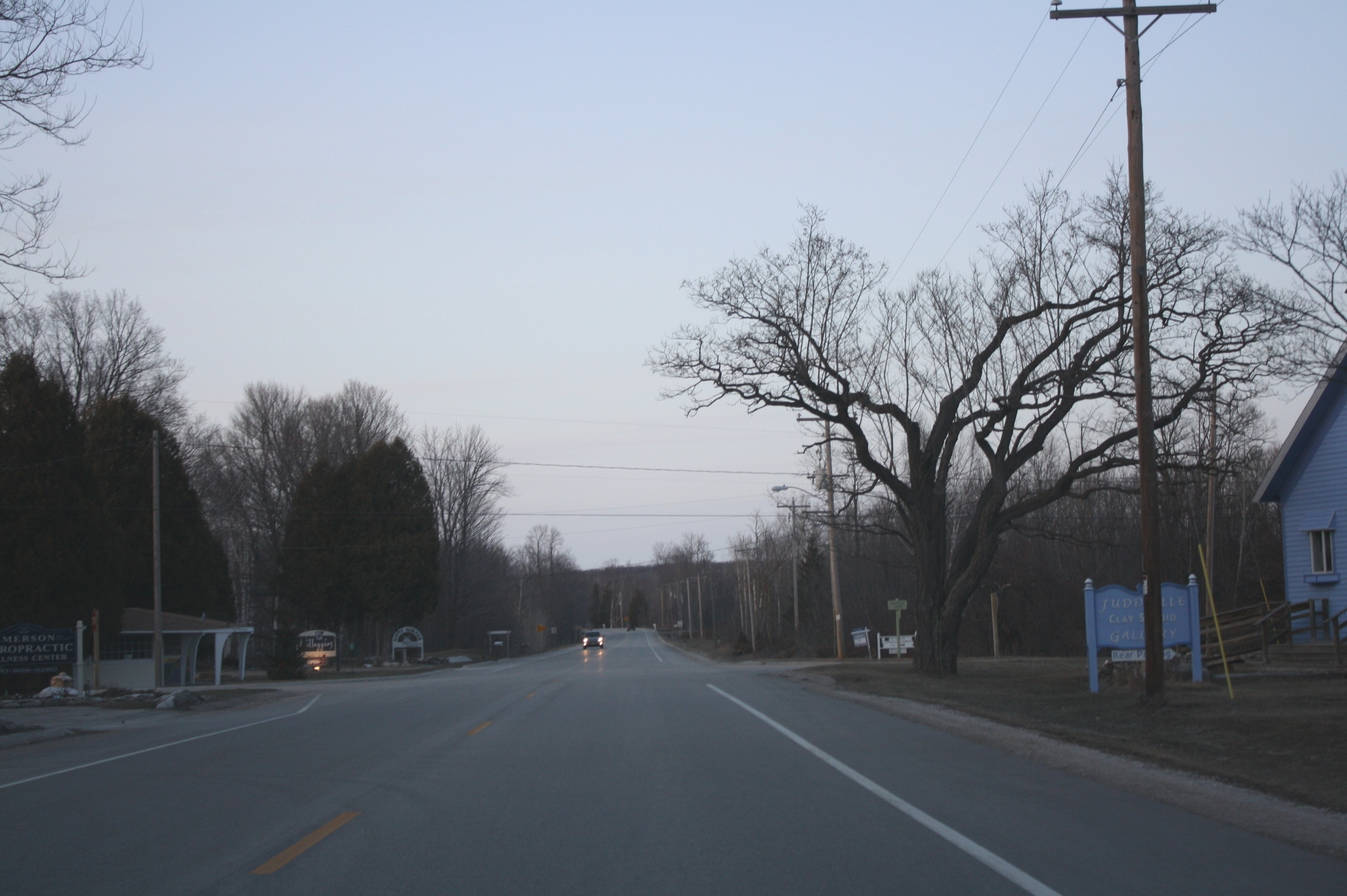 Looking northerly in downtown Juddville, Wisconsin on Wisconsin Highway 42.